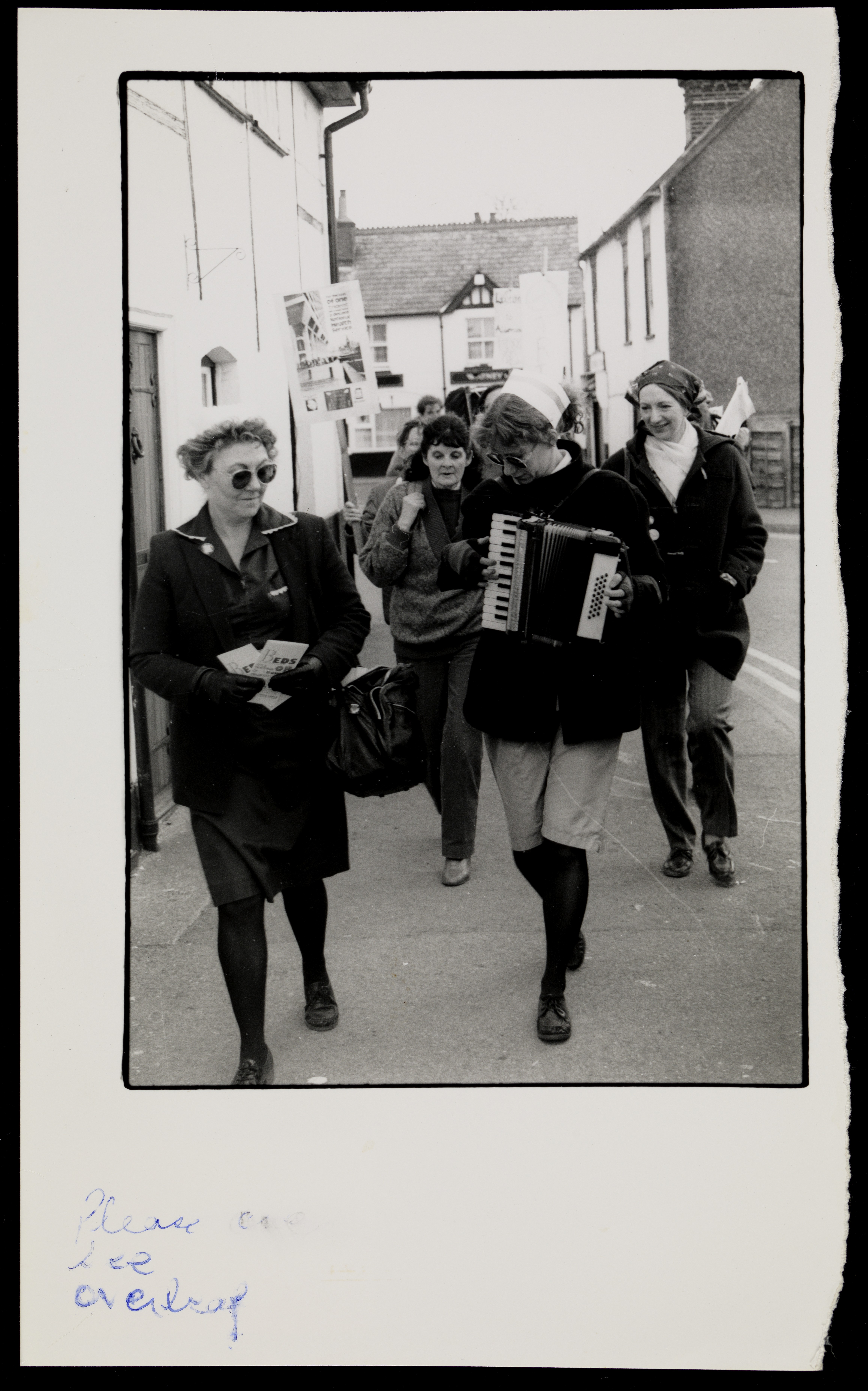 MCANW - supporting Luton CND Freedom March to Aldermaston, 1988. Alison Heywood playing the accordian. Medact was formed in 1992 as a merger between the Medical Campaign Against Nuclear Weapons (MCANW) and the Medical Association for the Prevention of War (MAPW). Archives & Manuscripts